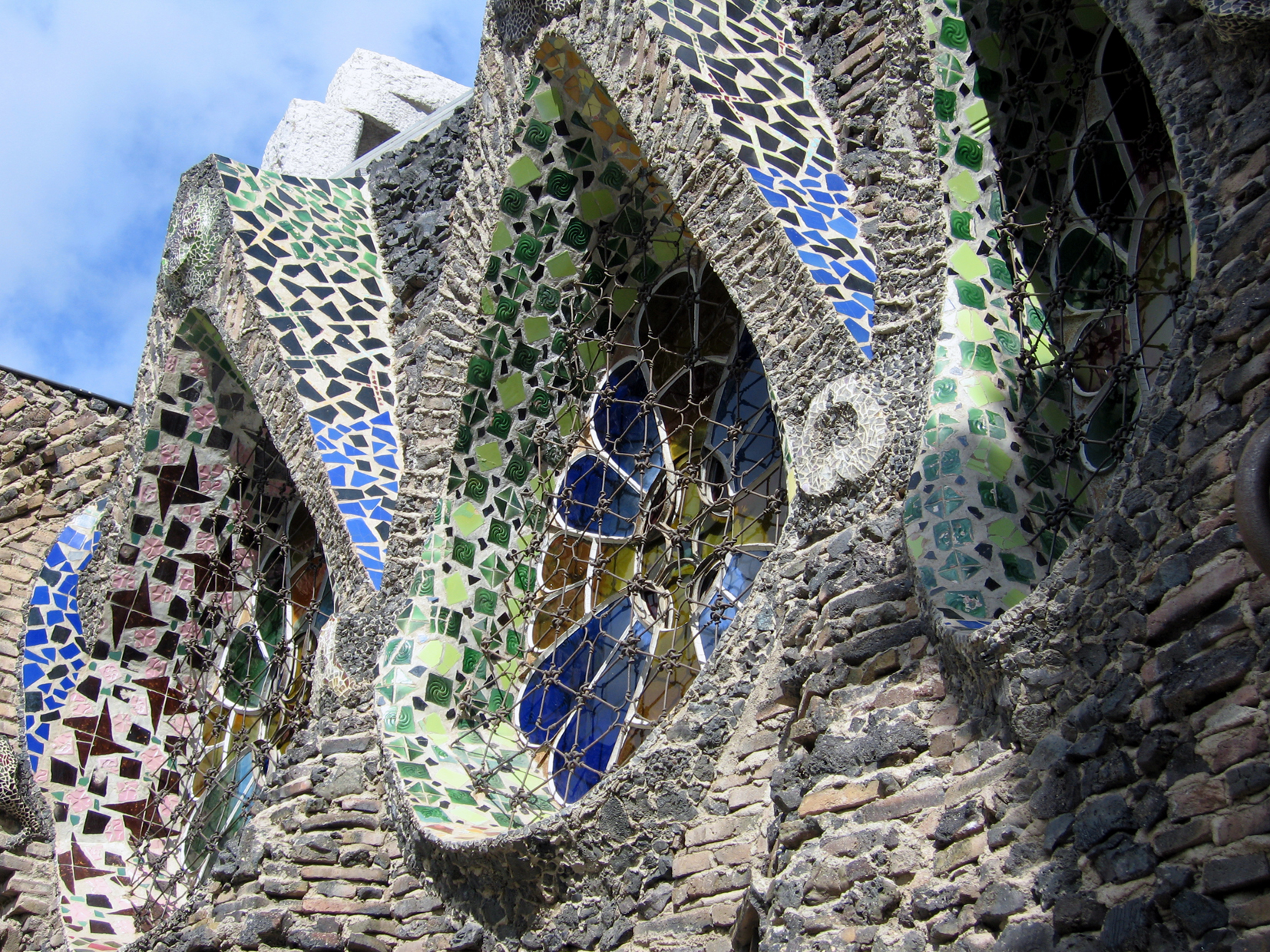 Crypt of the unfinished chapel of Antoni Gaudí in the Colònia Güell in Santa Coloma de Cervelló (Catalonia).